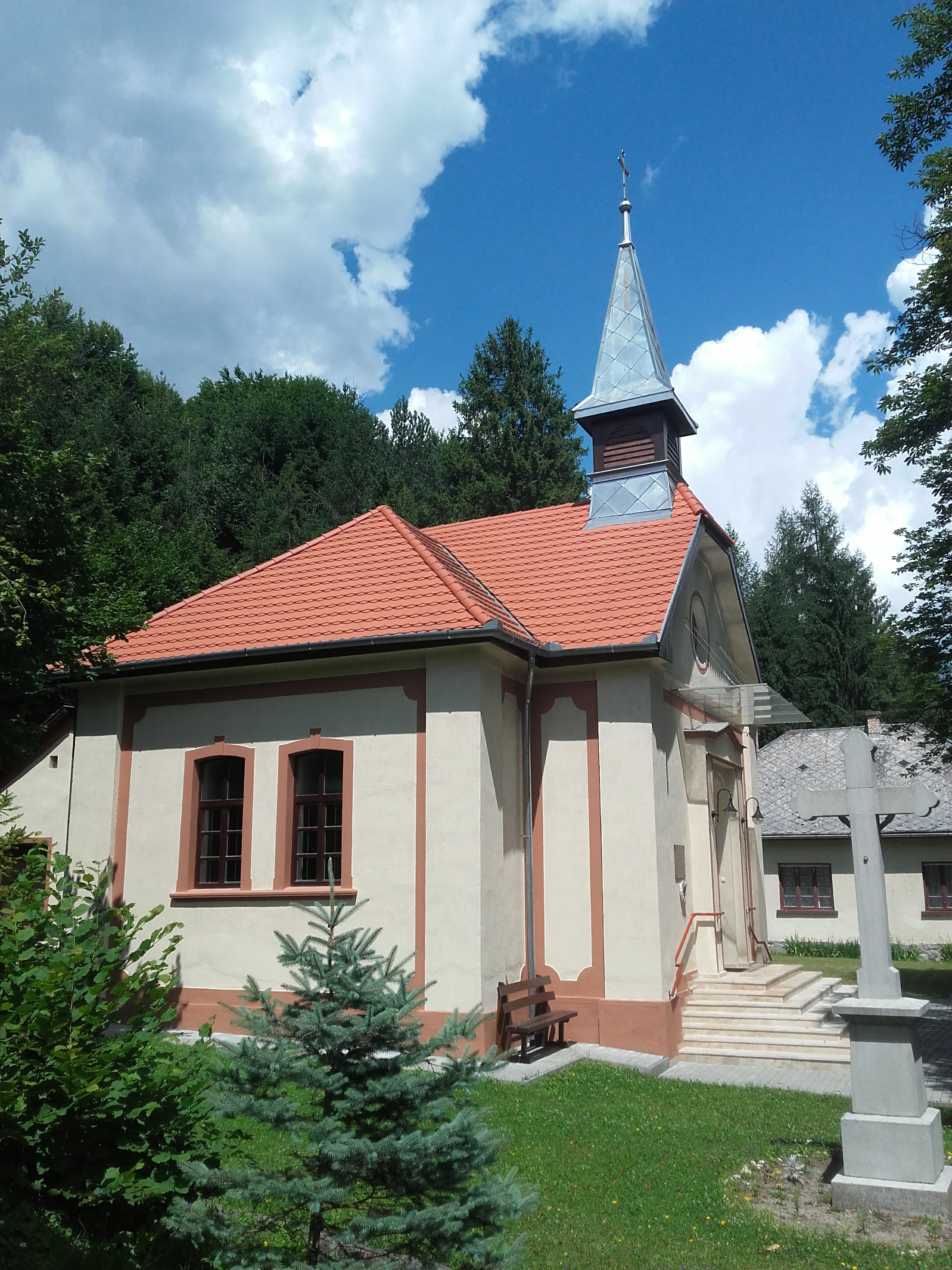 Roman Catholic church of Kishuta, Hungary